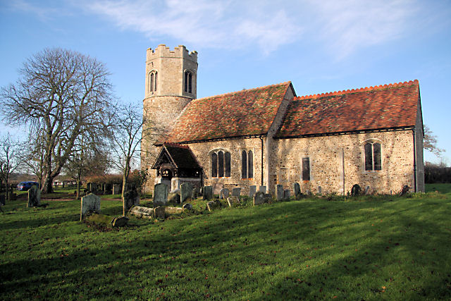 All Saints Church, Little Bradley